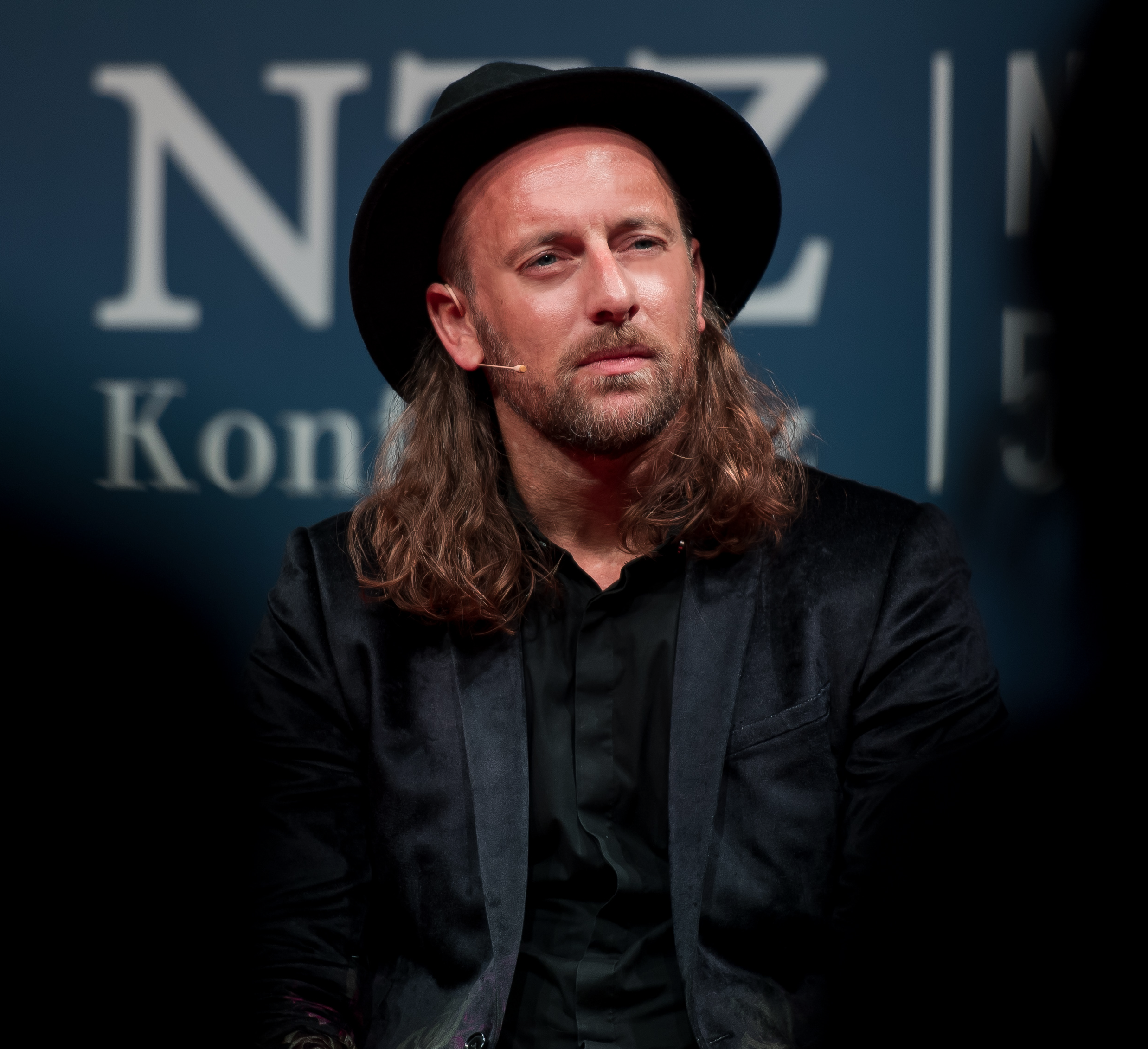 Anders Indset | Portrait | Business Philosopher